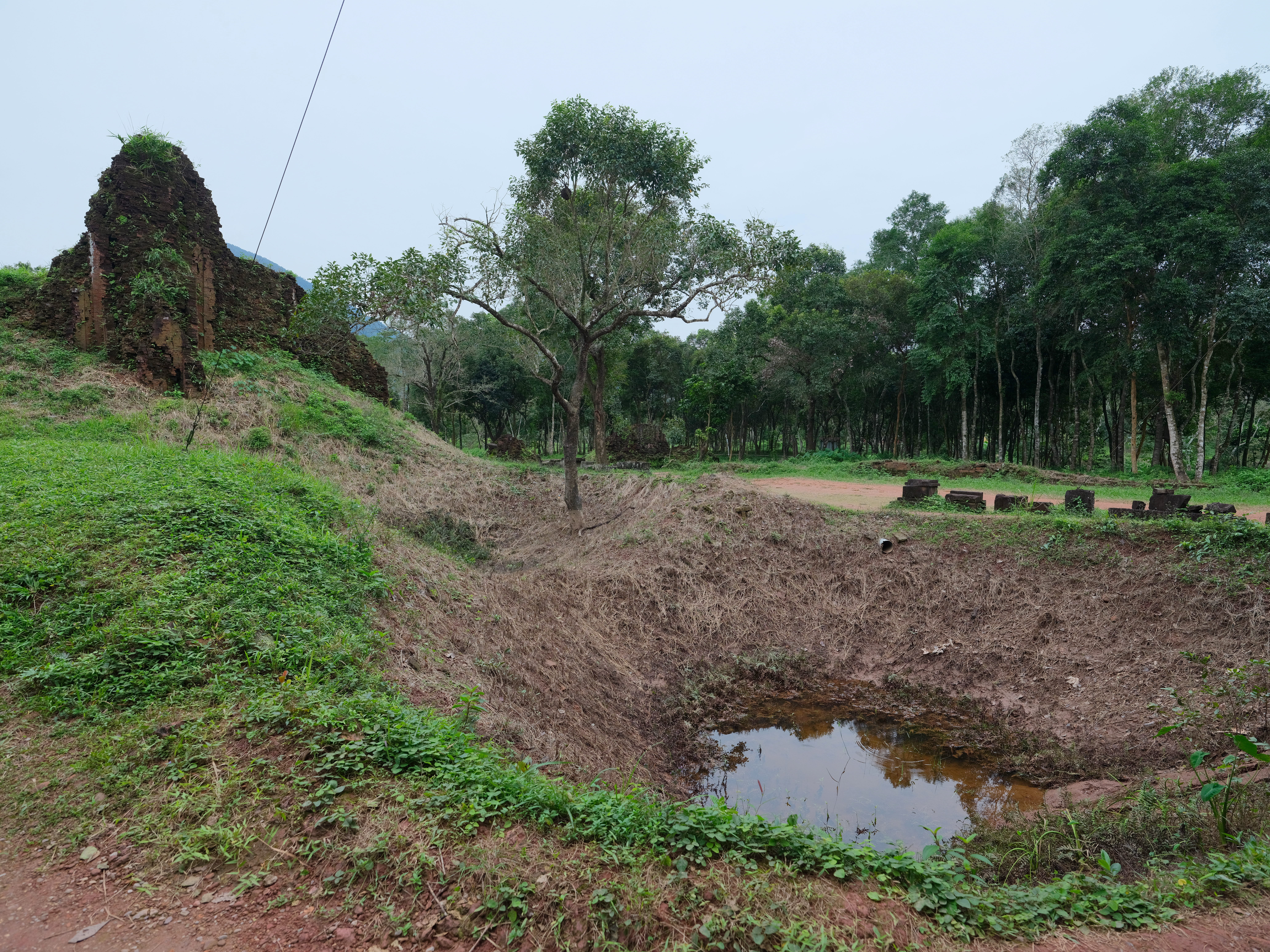 Bomb craters at the Mỹ Sơn sanctuary ruins, Vietnam.